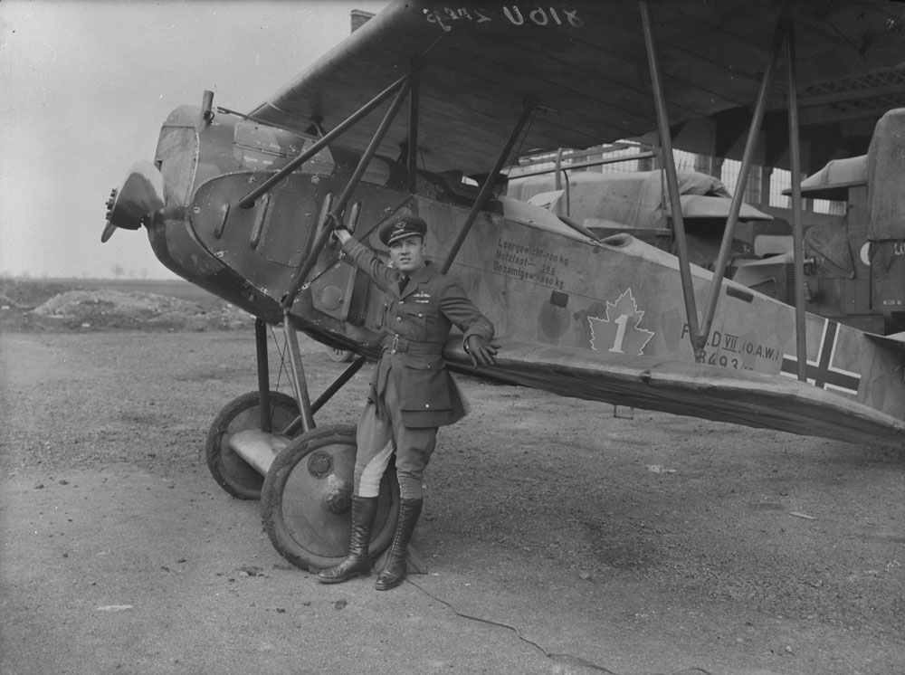 Major Andrew Edward McKeever, Commanding Officer, No. 1 Squadron, Canadian Air Force standing in front of a captured Fokker D. VII aircraft of the German Air Force, Upper Heyford, United Kingdom, 1919. The aircraft has the No. 1 squadron insignia added to the original German markings. Exact date is not known, only the year.